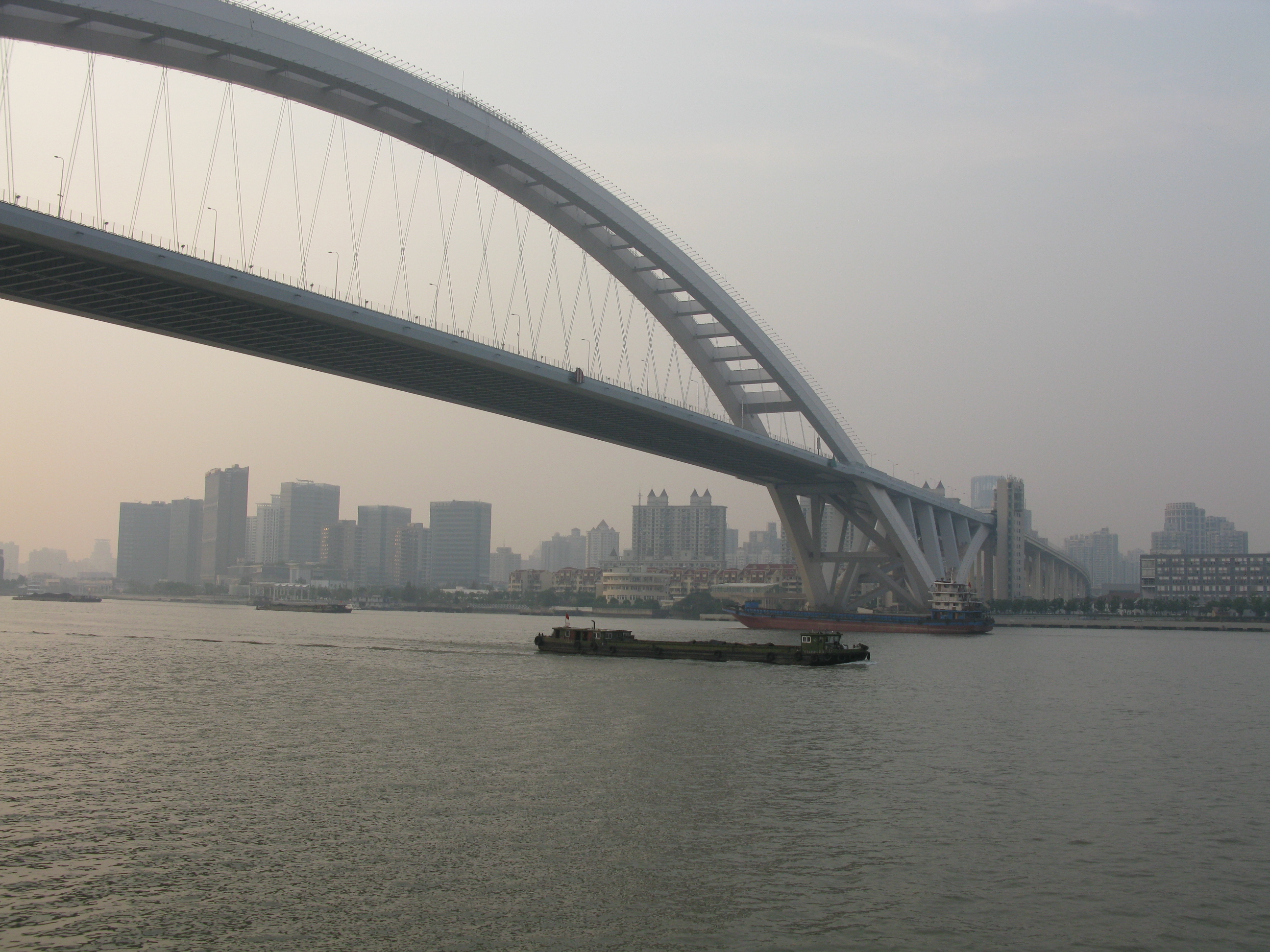 The Lupu Bridge over the Huangpu River in Shanghai